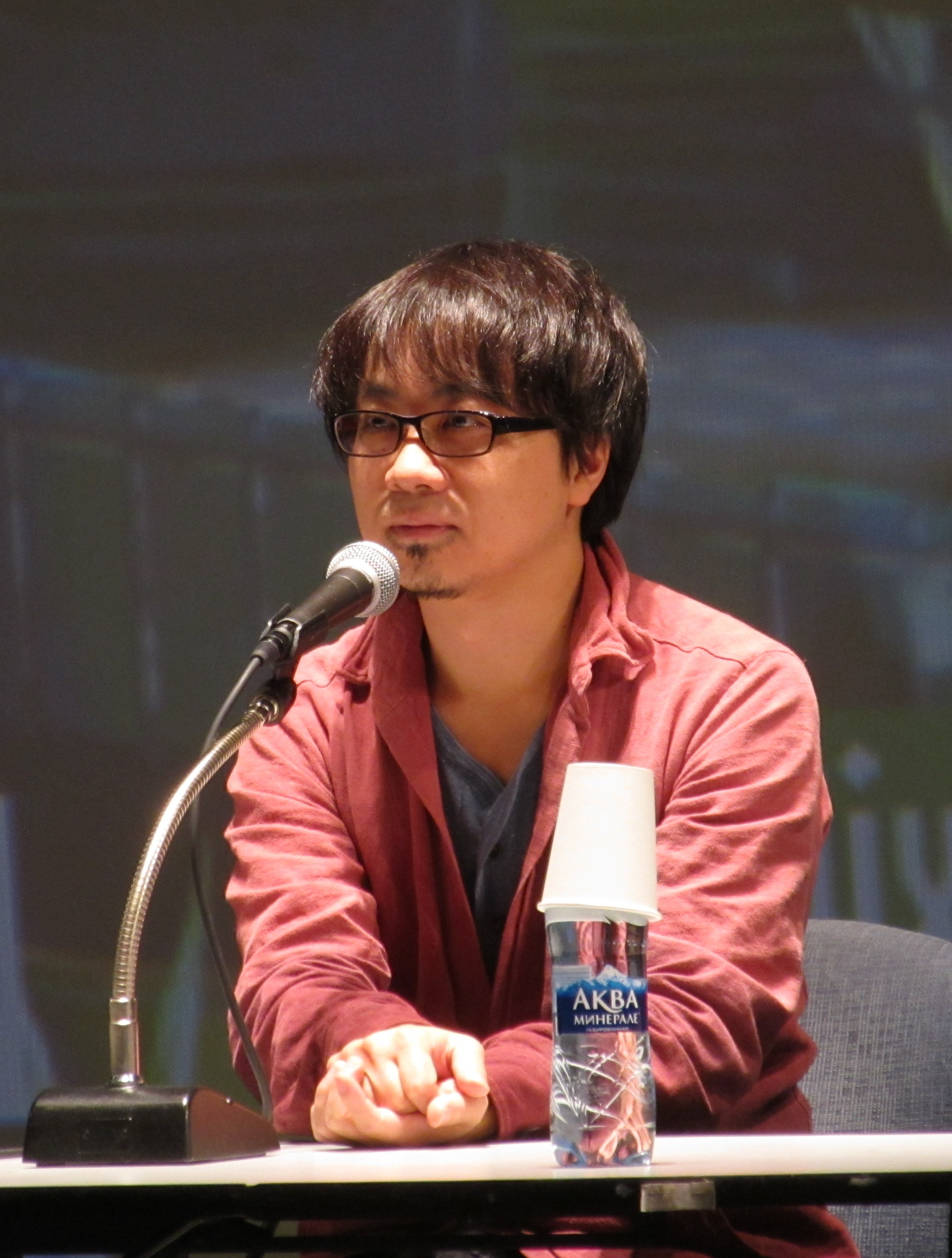 Makoto Shinkai discussing his film The Garden of Words with Russian fans in Moscow